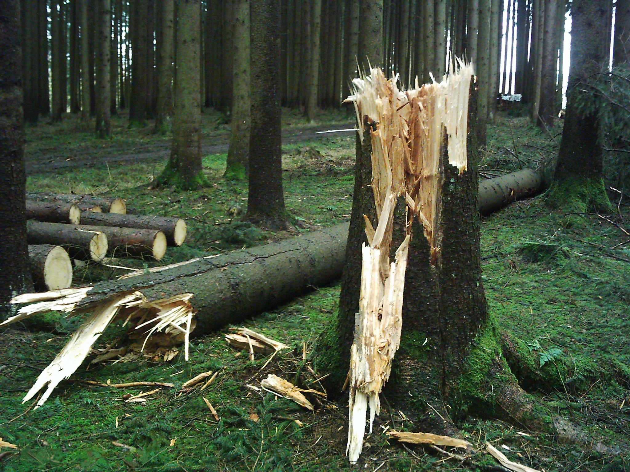 Picea abies with brown rot fungal decay, broken in storm